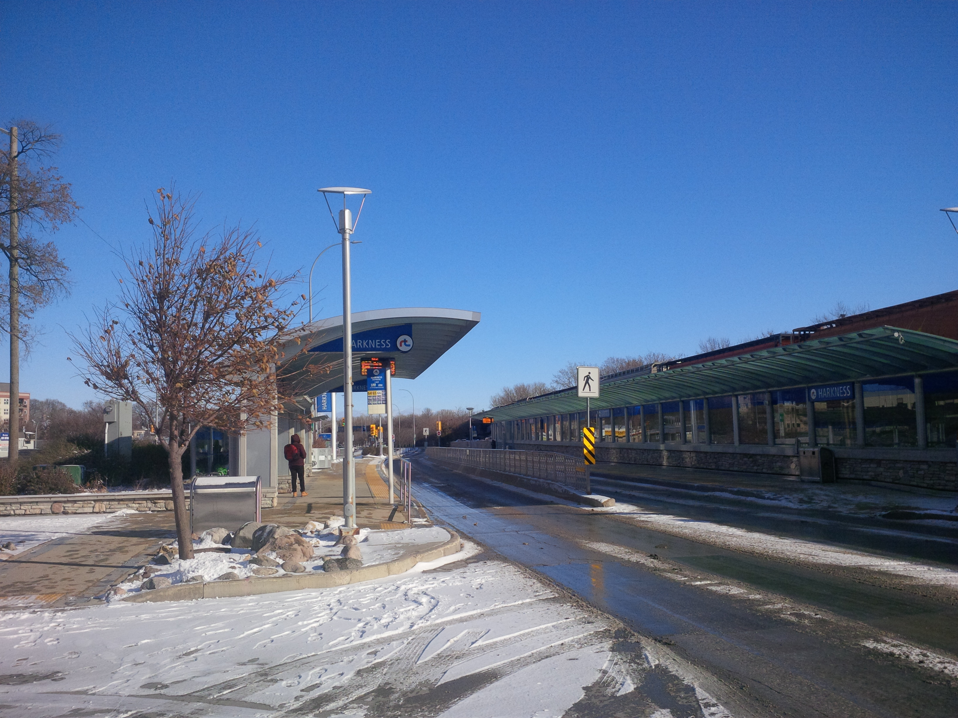 Harkness Station, part of the Southweest Transitway in Winnipeg.